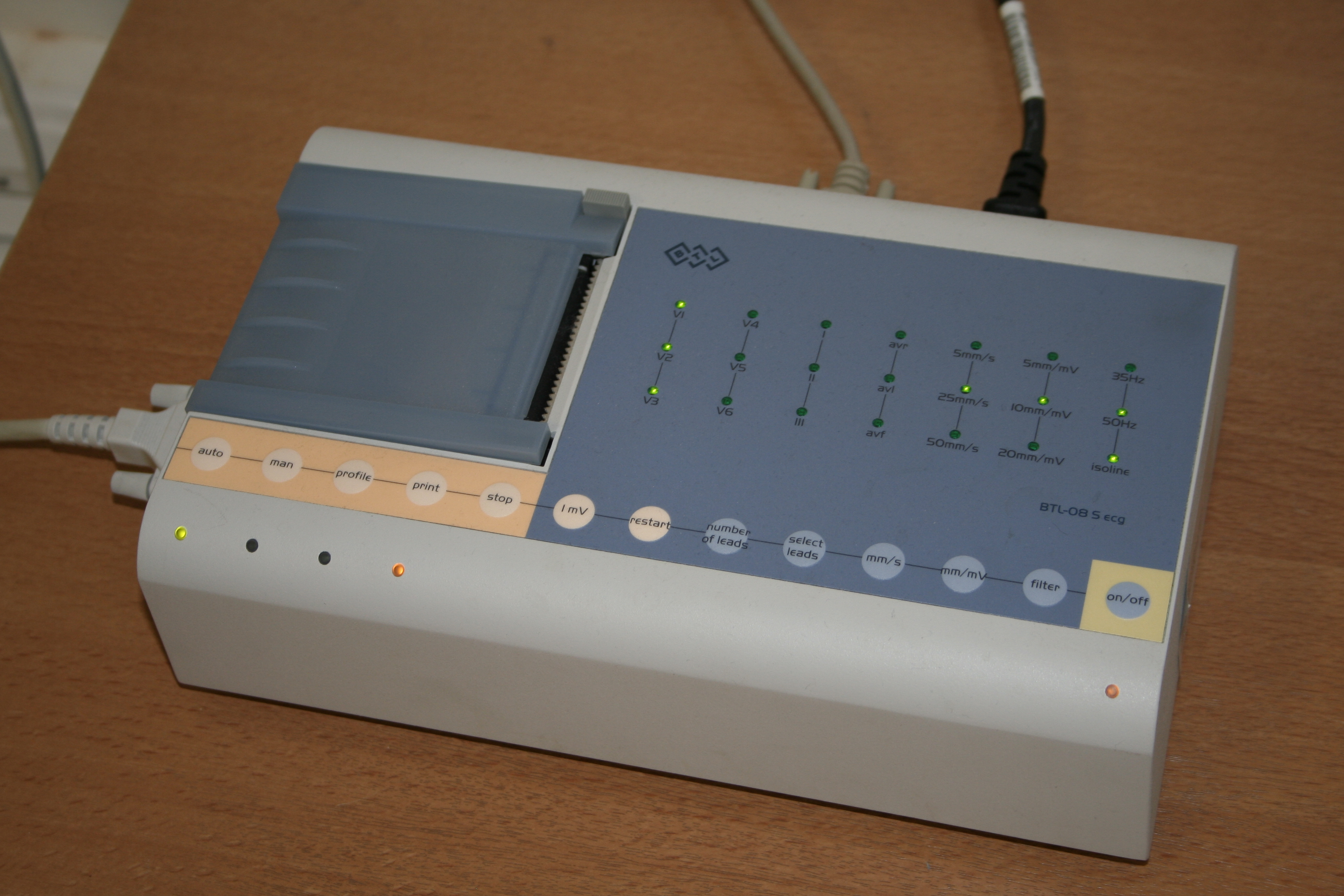 ECG device BTL-08 S ECG – the unit